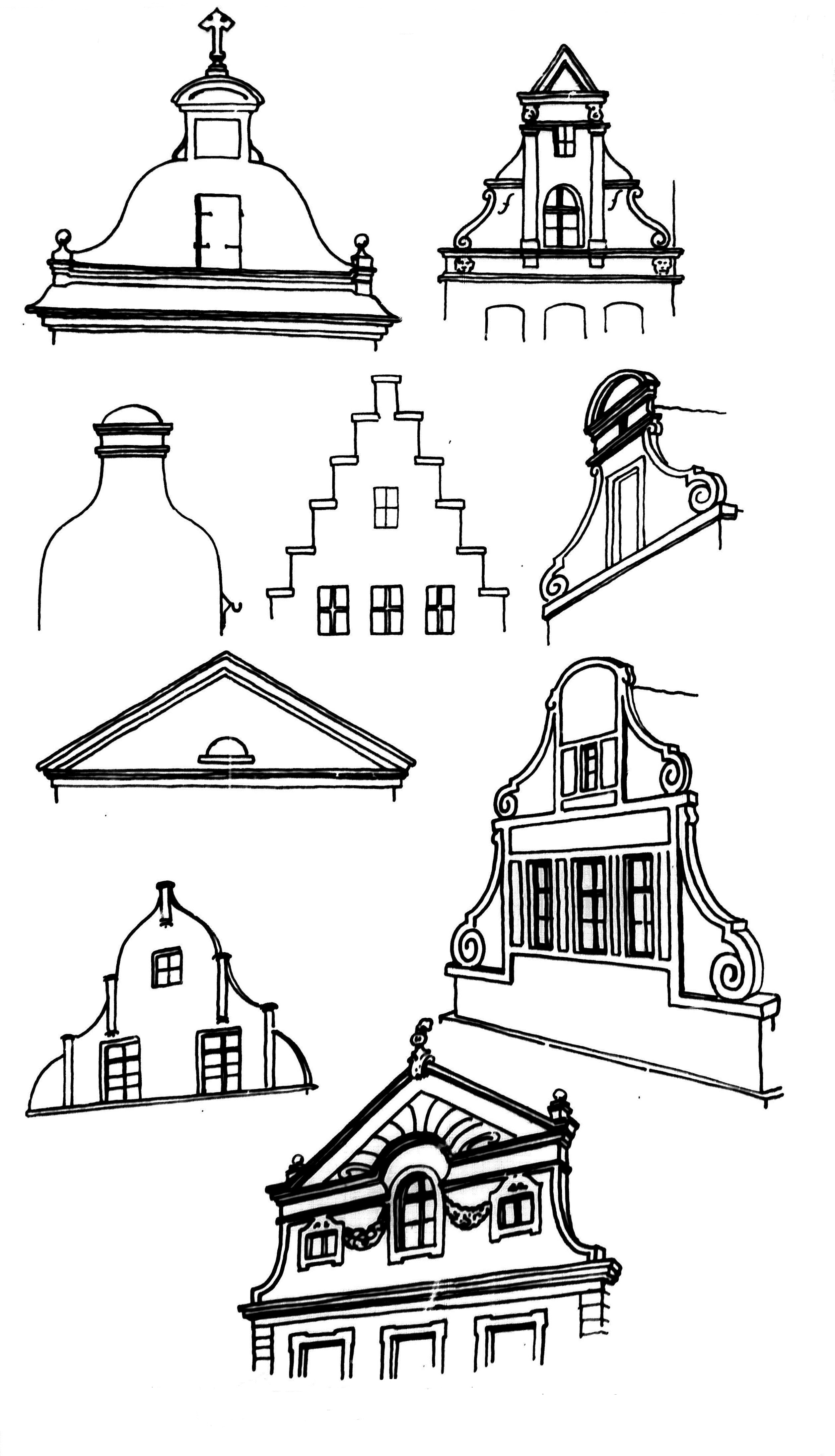 Paul Sültenfuß (* 12. August 1872 in Unna-Königsborn Kreis Hamm i.W.; † 28. April 1937 in Düsseldorf) Giebelformen in Düsseldorf 2, (Das Düsseldorfer Wohnhaus bis zur Mitte des 19. Jahrhunderts, 1922).jpg